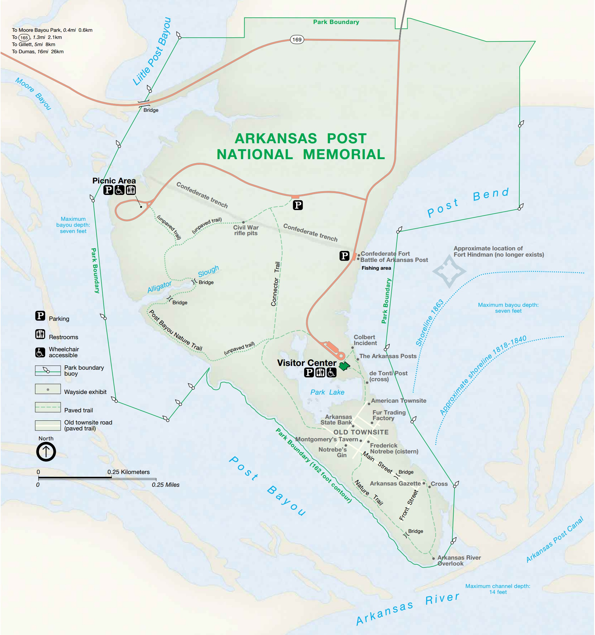 Arkansas Post park map, originally listed as work of the US National Park Service here